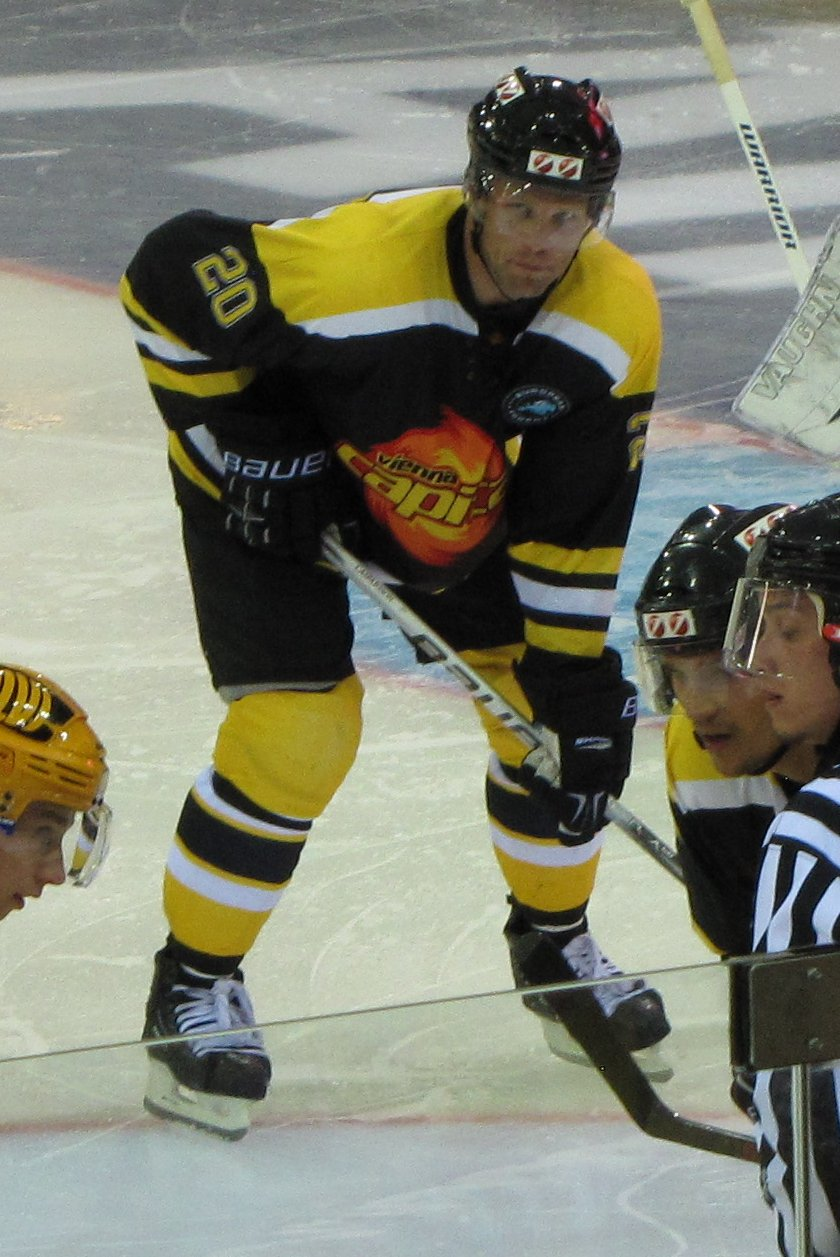 Swedish ice hockey player Peter Casparsson playing for Vienna Capitals against Finnish KalPa Kuopio in the 2011 European Trophy in Vienna, Austria.